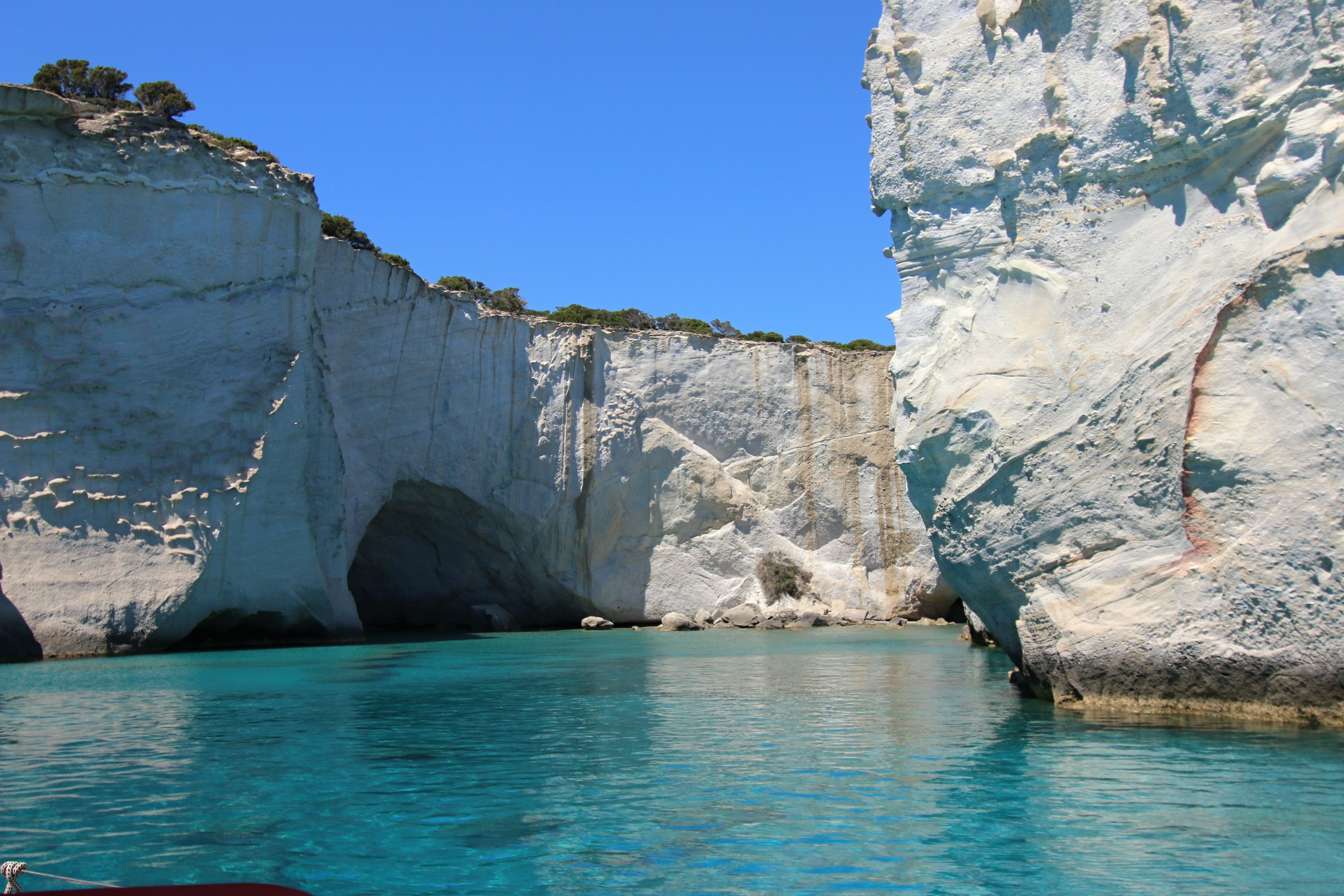 Kleftiko, Milos.